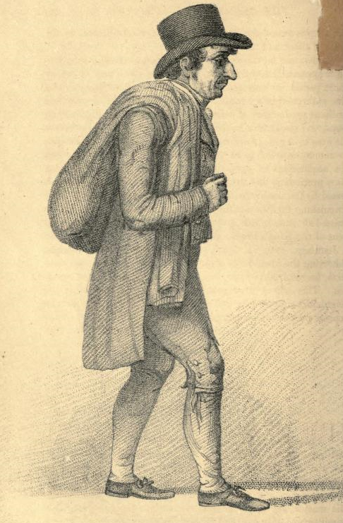 Henry Lemoine sketch